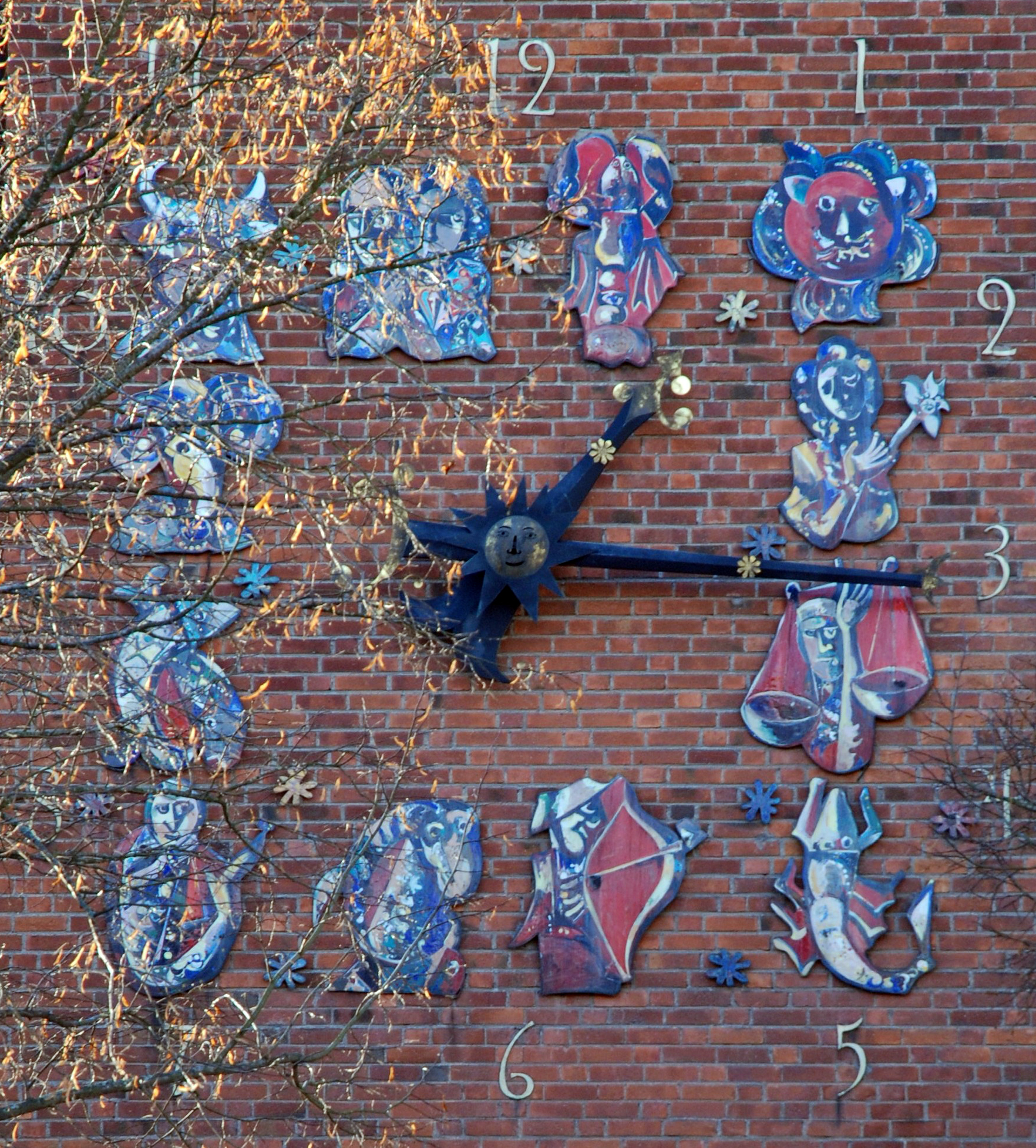 Endre Nemes´ Zodiac clock, enamel, Västertorp, Sweden